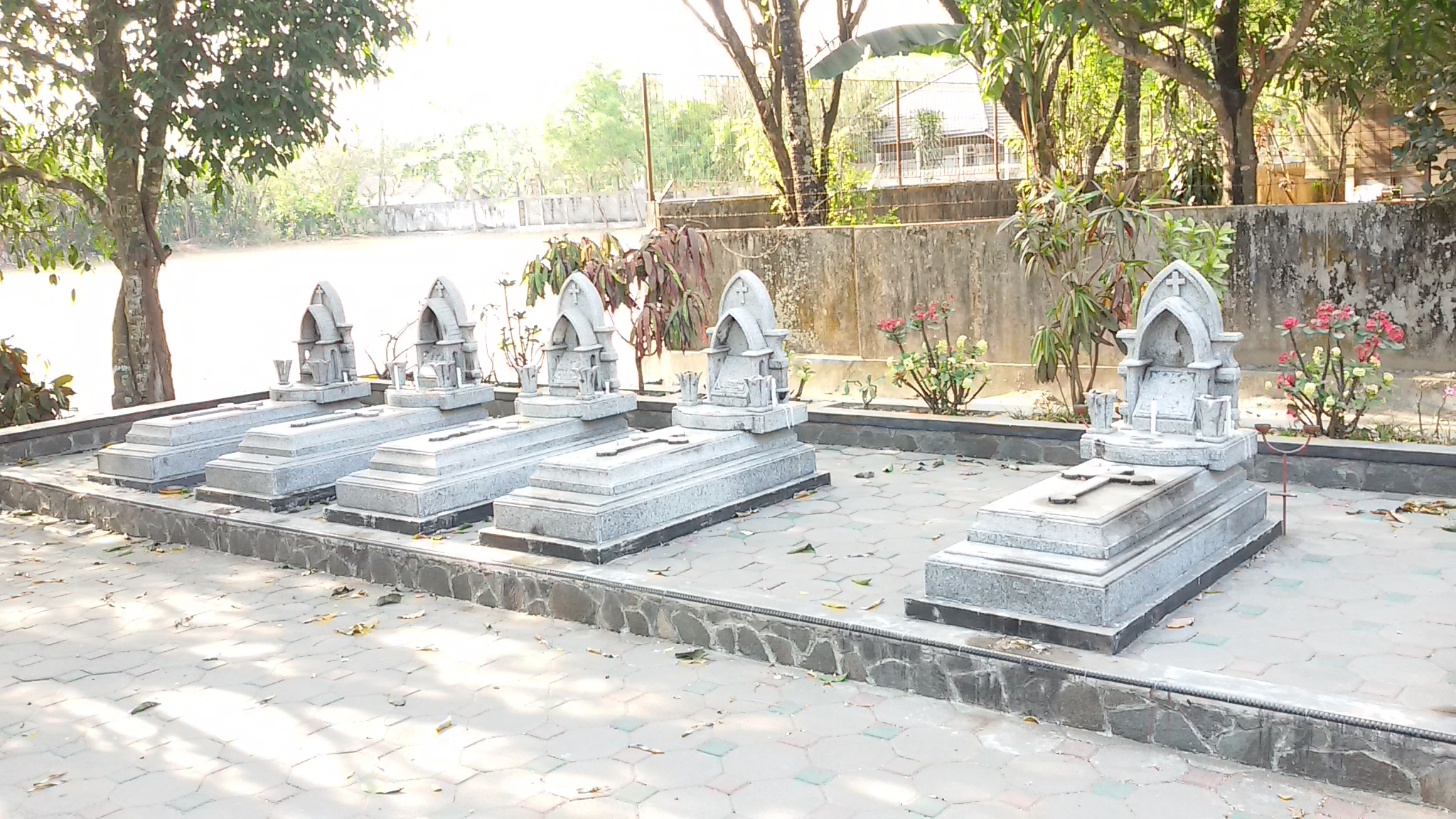 The graveyard of CSsR priests at St Alfonsus Church, Nandan, Yogyakarta